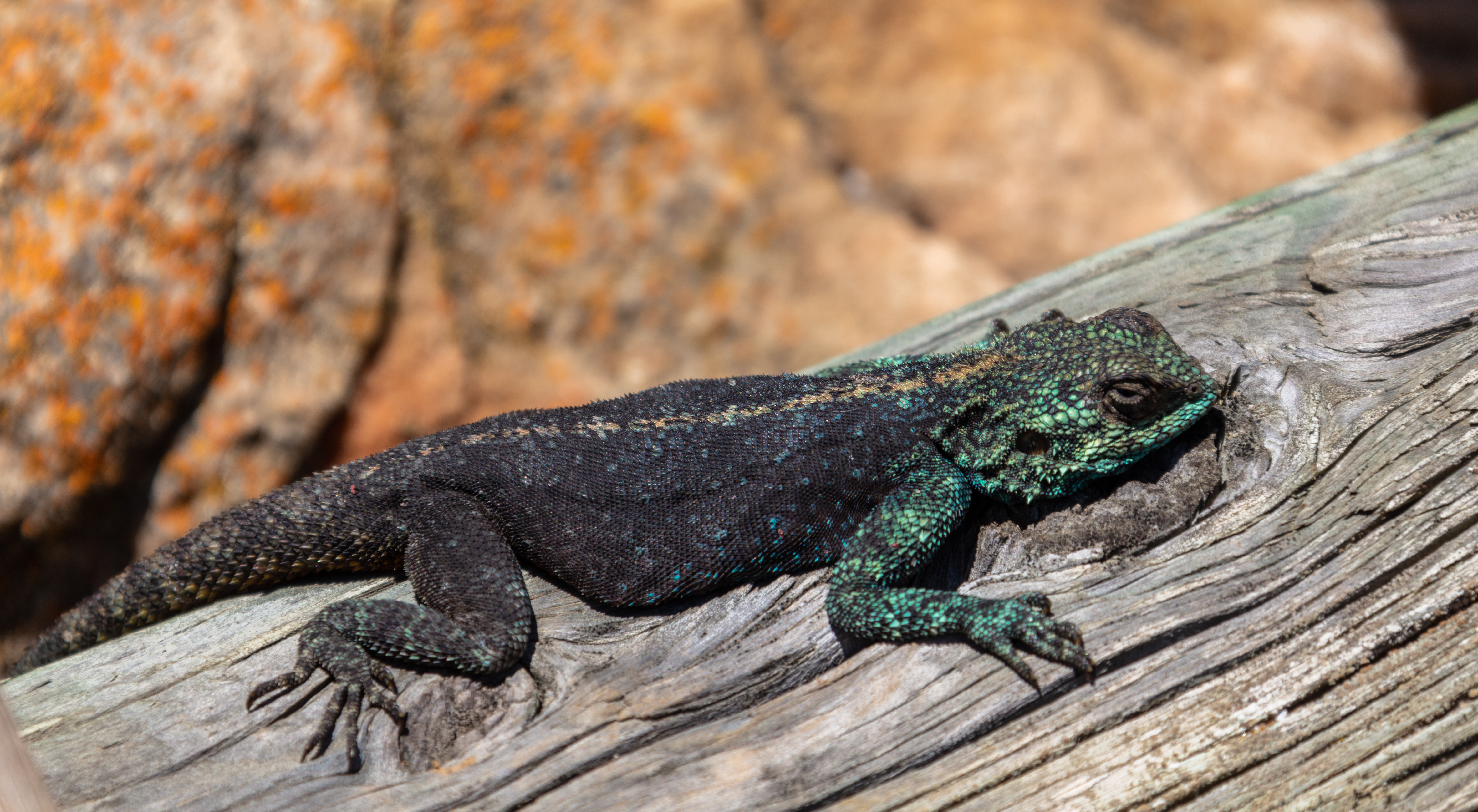 Southern rock agama (Agama atra), Cape of Good Hope, South Africa